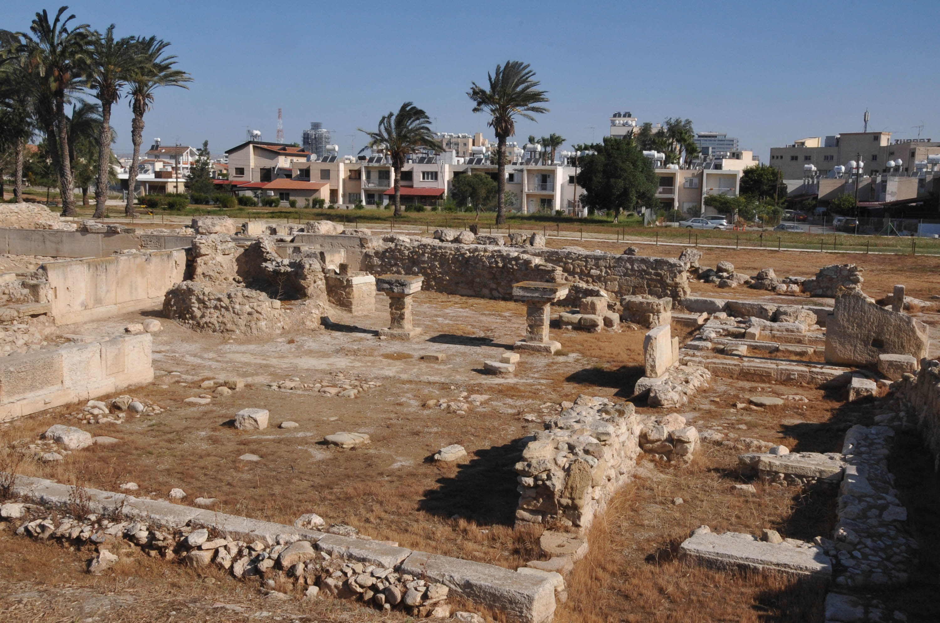 CITY WAS FOUNDED ACCORDING TO TRADITION BY KITTIM, GRANDSON OF NOAH BUT ARCHEOLOGICAL EVIDENCE SUGGESTS MORE LIKE 1300 B.C. SHORTLY THEREAFTER THE MYCENAEANS LANDED AND BUILT A TEMPLE. THE PHOENICIANS CONQUERED THE CITY IN THE 9TH CITY B.C. AND BUILT A SHRINE TO THE GODDESS ASTARTE